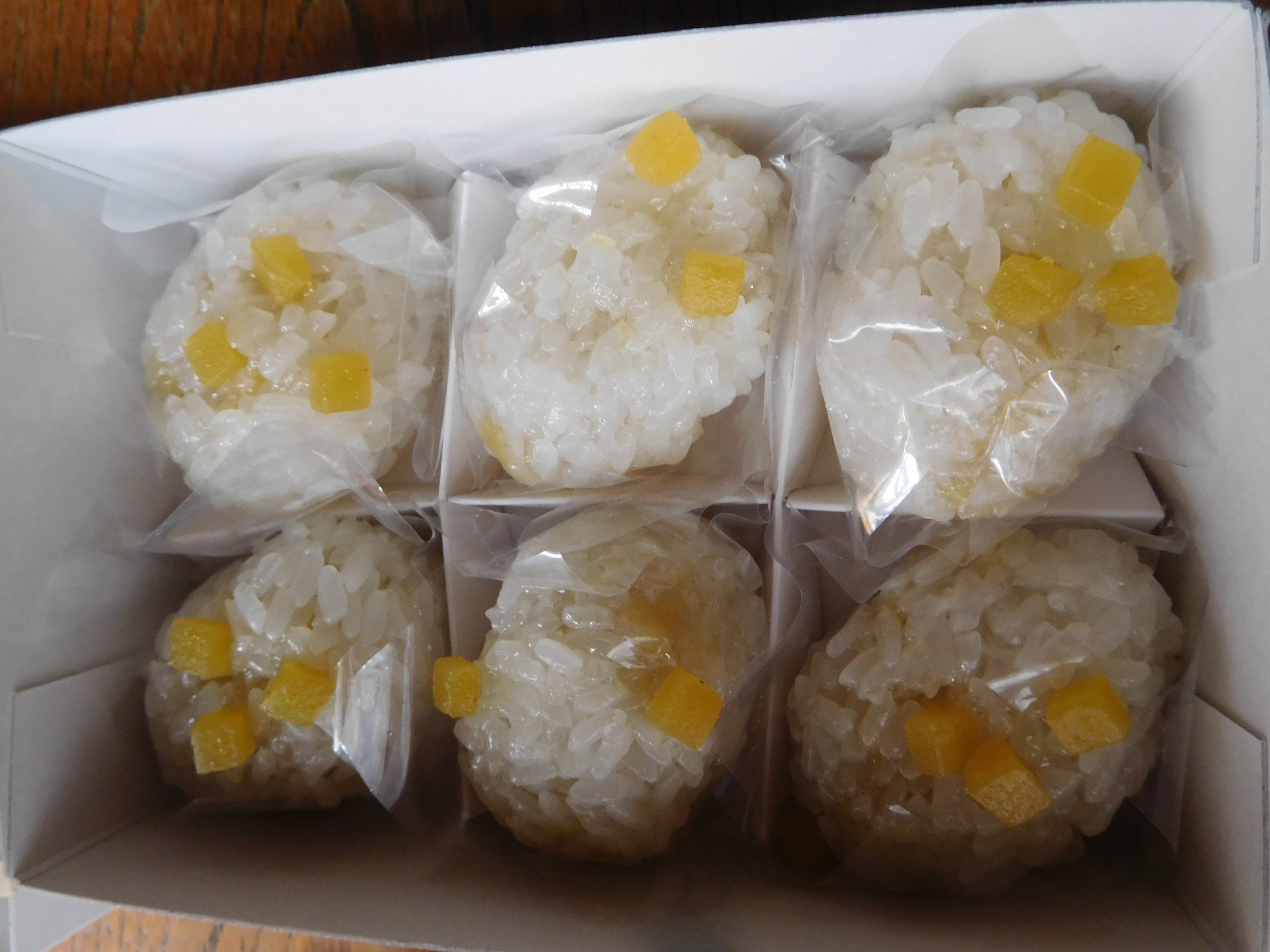 These are Tsuitachi Mochi, which is sold on the first of every month. Akafuku, a rice cake shop makes these rice cake. These Tsuitachi Mochi are called Kuri-Mochi or rice cake with Japanese chestnuts.